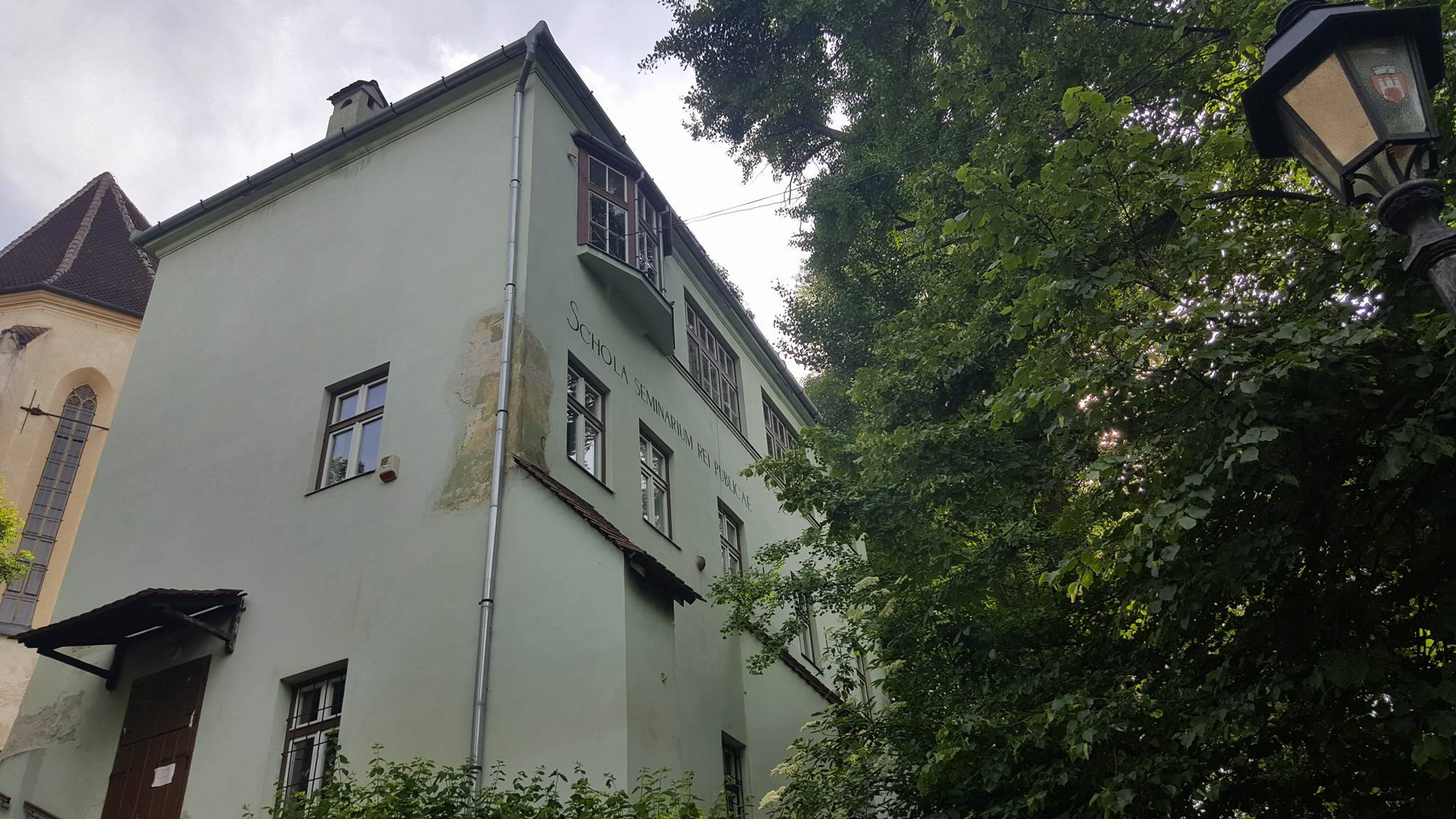 School on the Hill